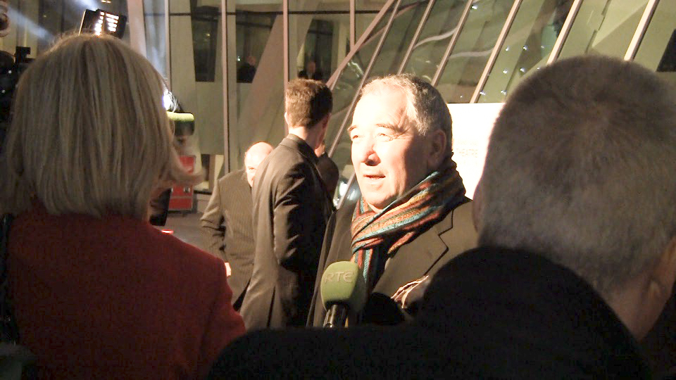 Leaseholder of the Grand Canal Theatre Harry Crosbie at the opening in March 2010.